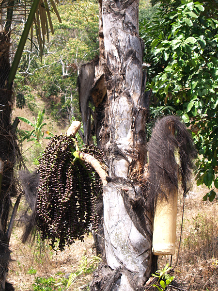 A traditional method in East Timor of collecting juice to make palm wine. A small cut is made in the stem of the male flower and the sweet palm juice slowly drips into a container made from a section of bamboo. The juice is later fermented to varying strengths. The best, in my opinion, is drinking it at the end of the first day when it is still fizzing and not too strong yet.